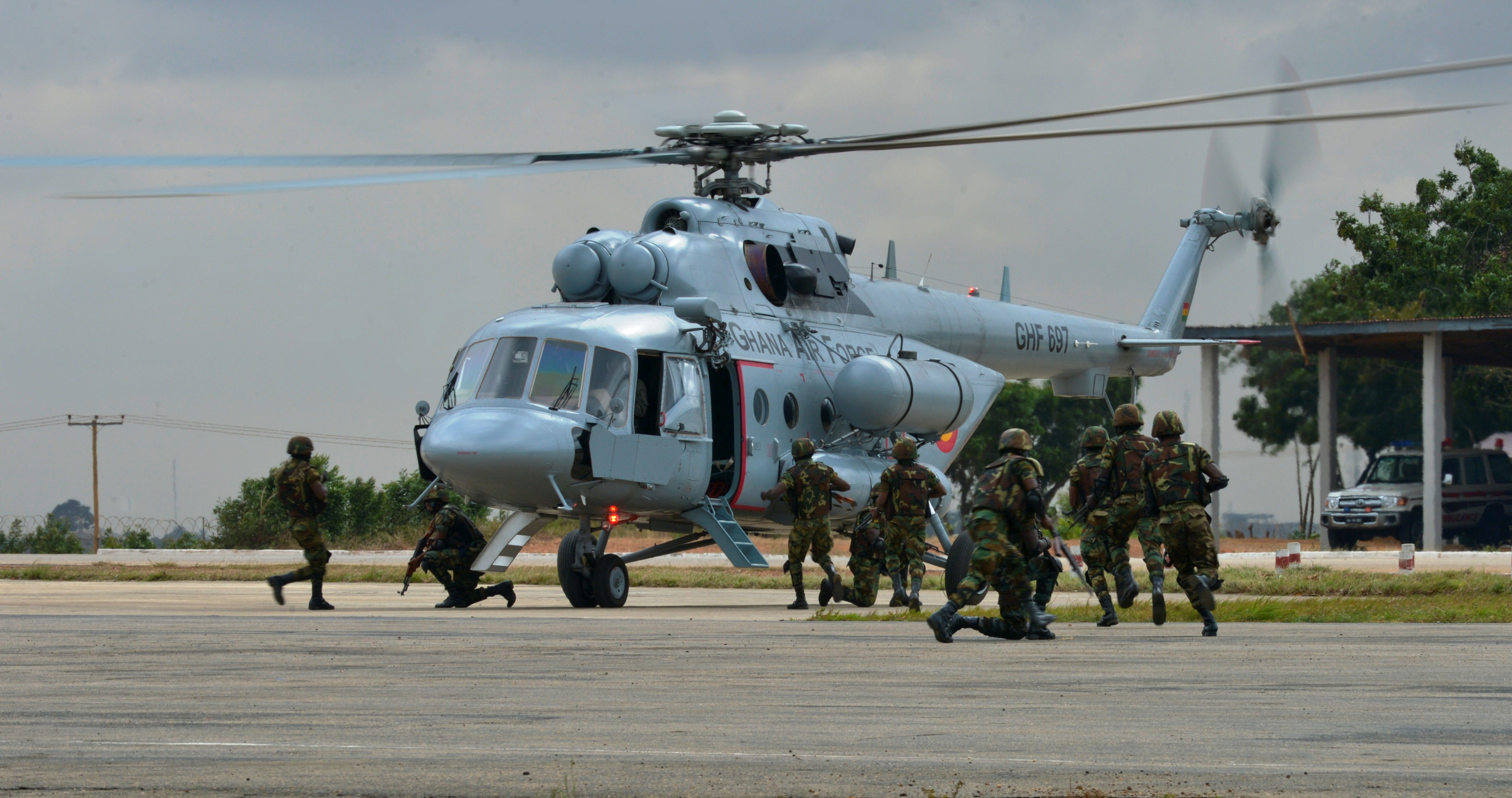 A Ghanaian air force special forces team clears an area on a flight line before takeoff during a training demonstration for Lt. Gen. Craig A. Franklin, 3rd Air Force commander and 10 African air chiefs during the 2013 Regional Air Chiefs Symposium official party, Aug. 21, 2013, Accra, Ghana. The Regional African Air Chiefs Symposium brings air chiefs together to discuss how their unique air capabilities can be collaborated to resolve regional issues.